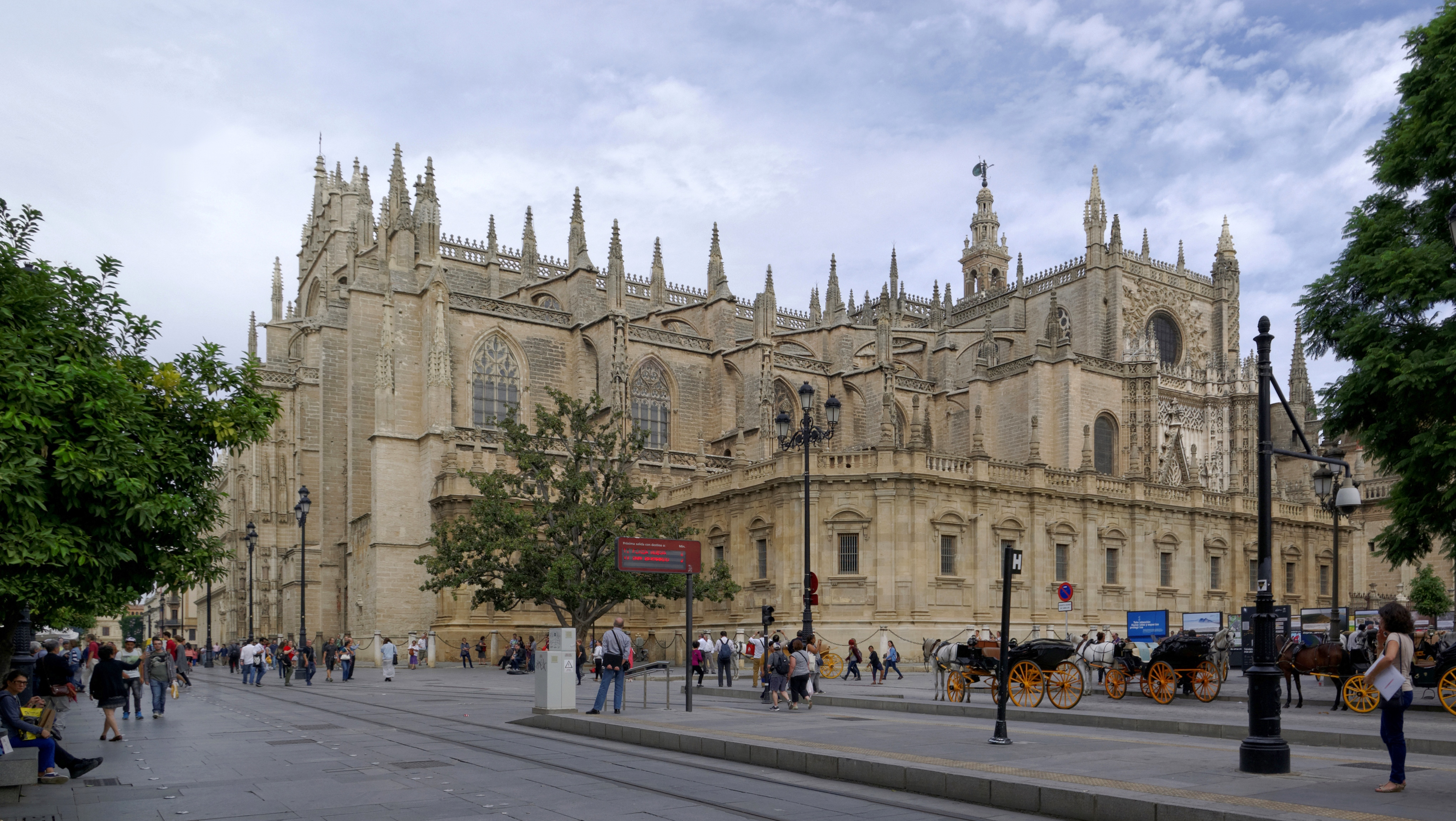 Spain, Sevilla, Cathedral of Seville, south facade